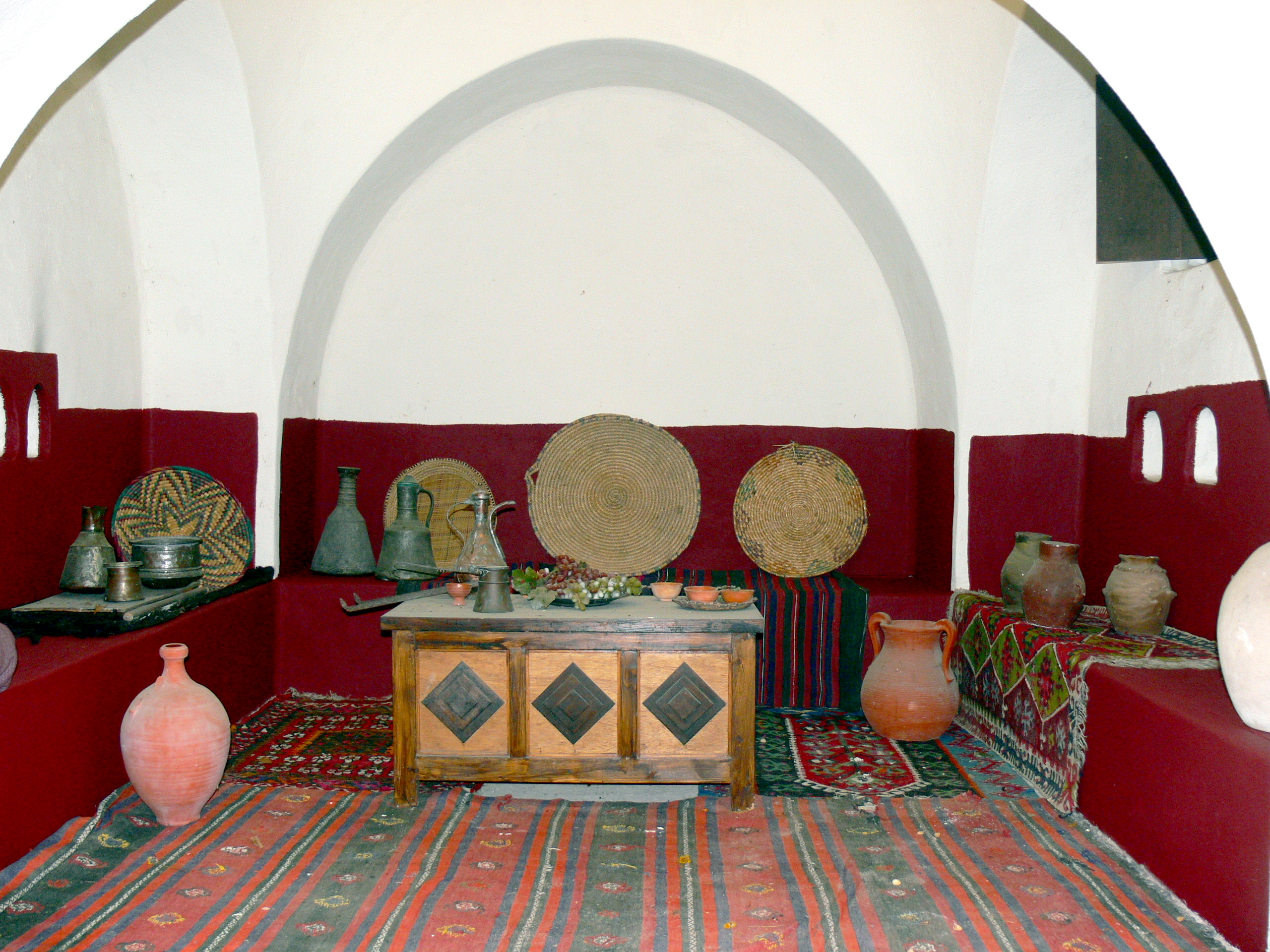 Bible open air museum in Nijmegen. Beith Juda Jewish Village: House of a rich man.